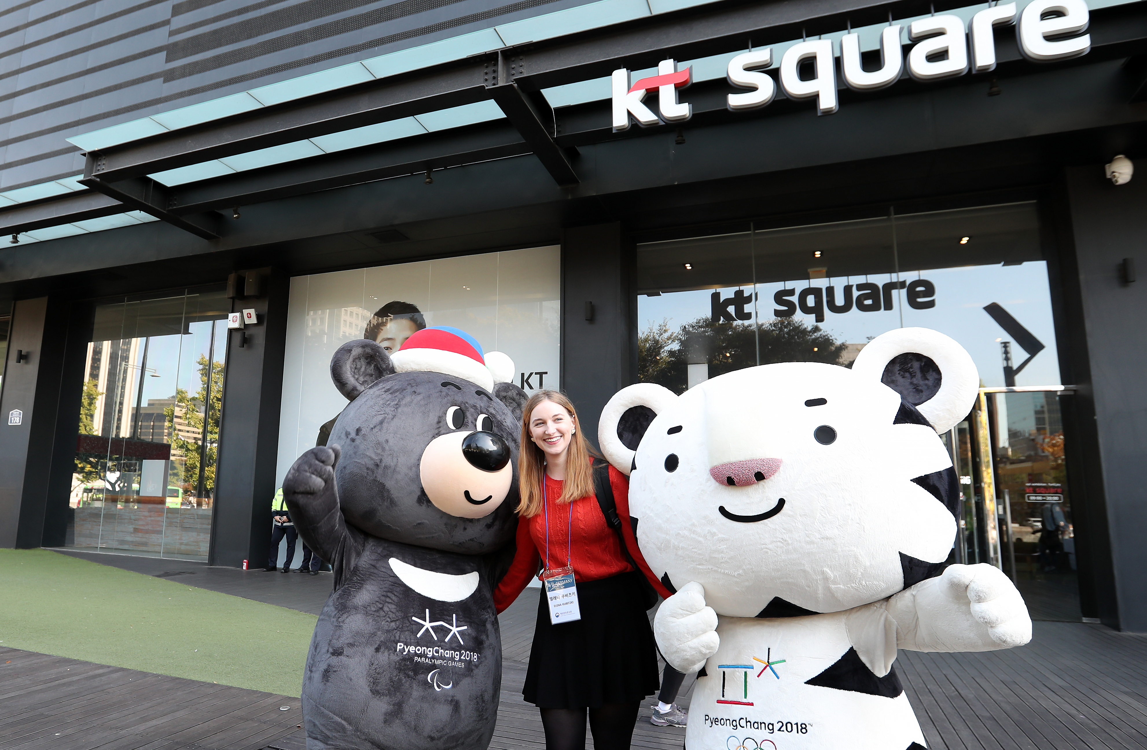 Honorary Reporters Tour in Seoul October 24. 2016 Seoul Ministry of Culture, Sports and Tourism Korean Culture and Information Service ( Official Photographer : Jeon Han This official Republic of Korea photograph is being made available only for publication by news organizations and/or for personal printing by the subject(s) of the photograph. The photograph may not be manipulated in any way. Also, it may not be used in any type of commercial, advertisement, product or promotion that in any way suggests approval or endorsement from the government of the Republic of Korea. 코리아넷 명예기자단 한국탐방 2016-10-24 서울 문화체육관광부 해외문화홍보원 코리아넷 전한